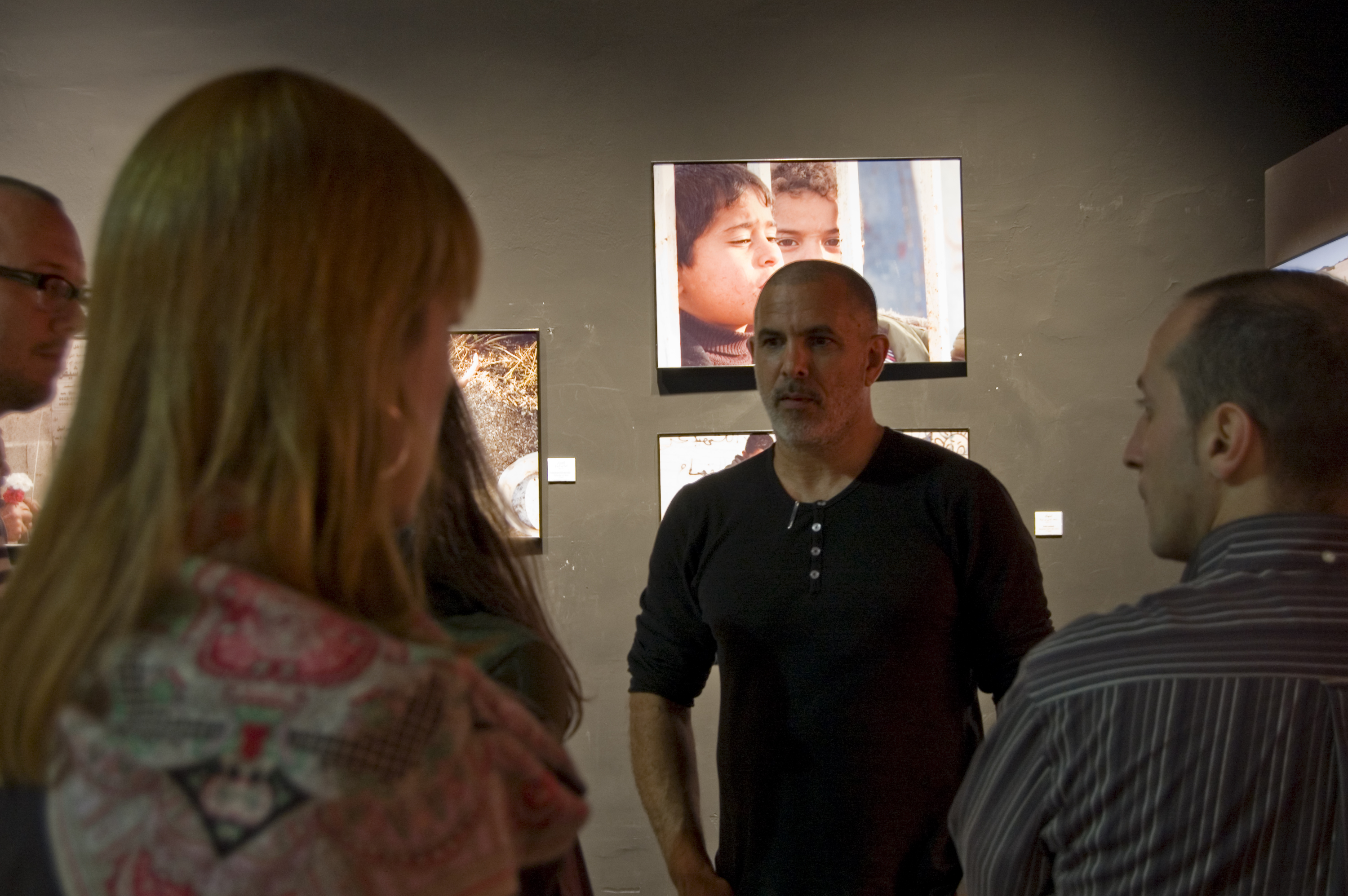 Juliano Mer-Khamis, Freedom Theatre Jenin